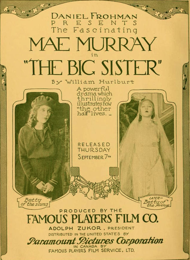 Advertisement in Moving Picture World for The Big Sister (1916).